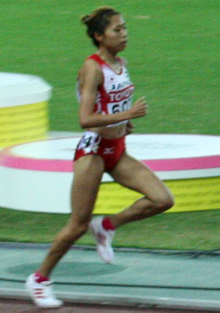 World Athletics Championships 2007 in Osaka - Scene from the women*s 5000 metres final: Kayoko Fukushi